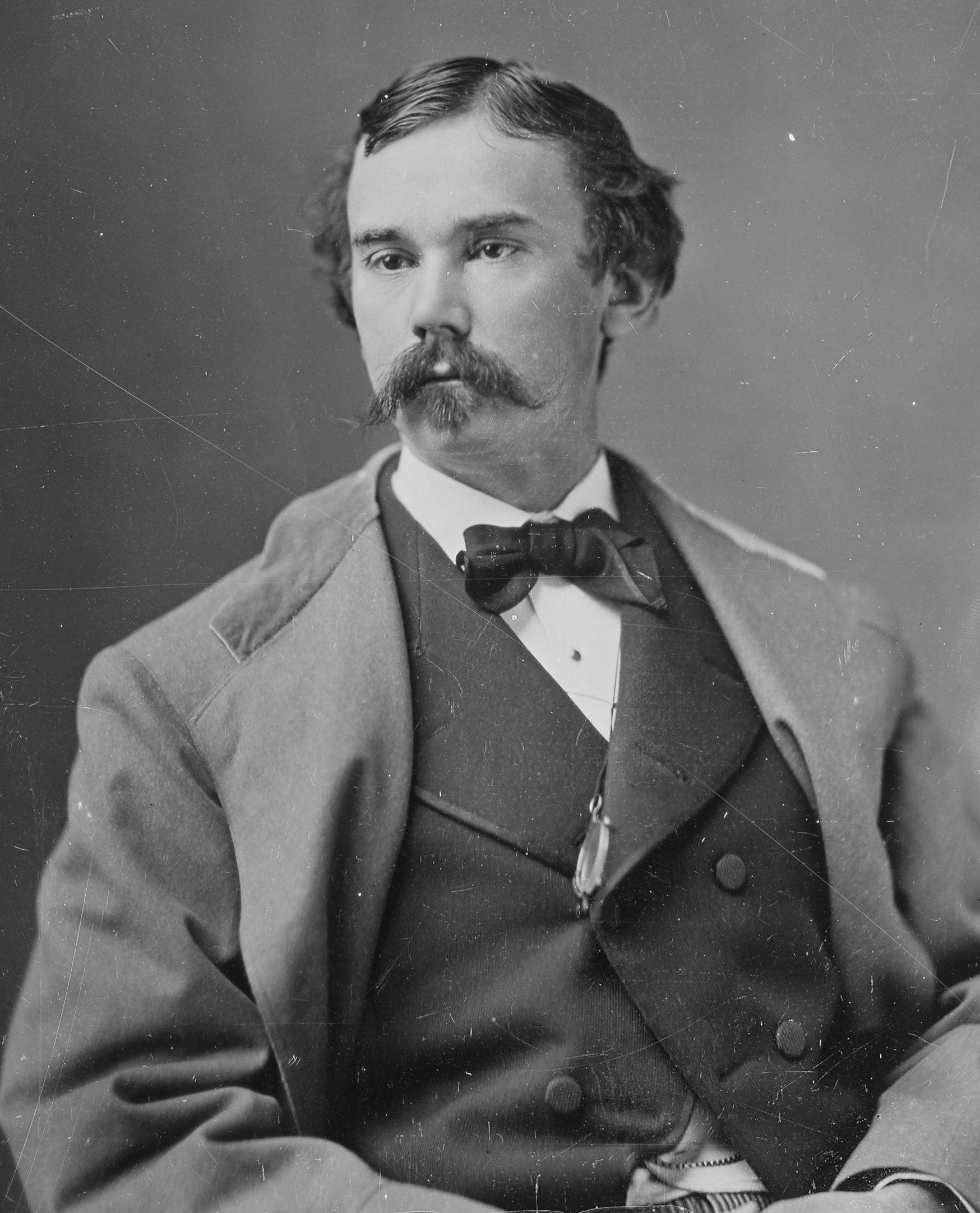 Photograph of John Hay by Mathew Brady (cropped)